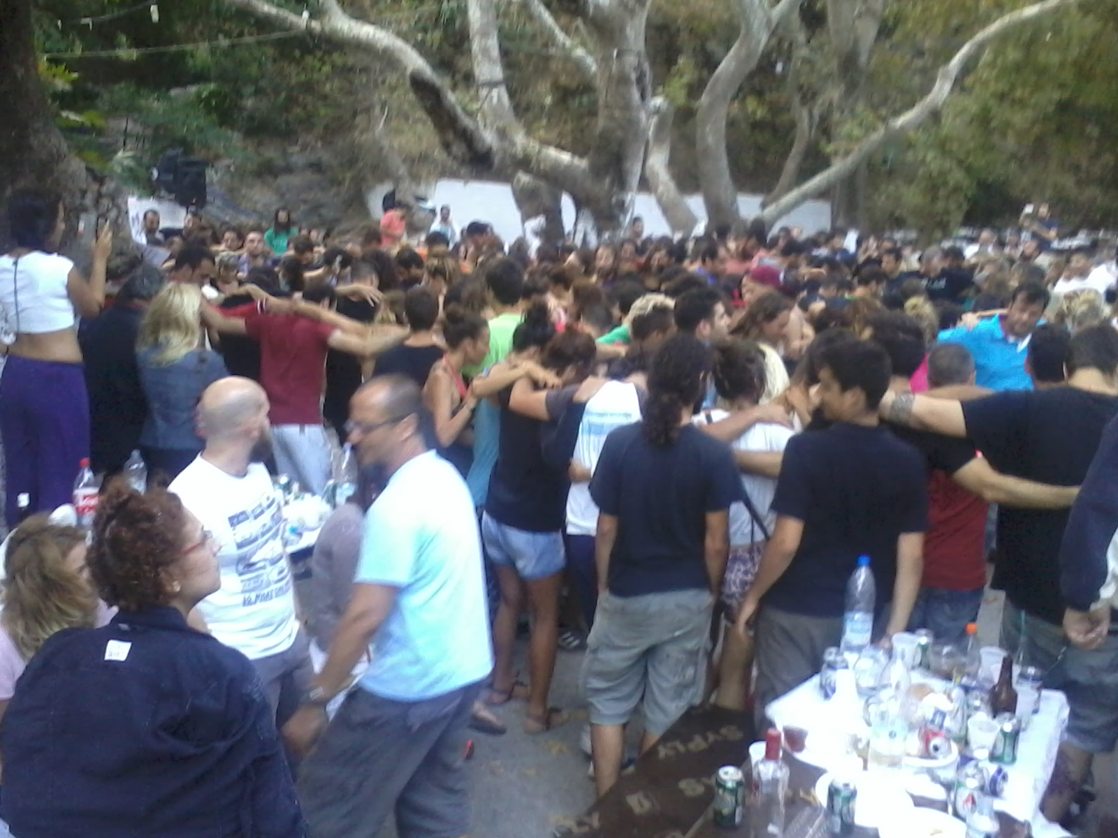 View of an Ikarian festival at Karavostamo.